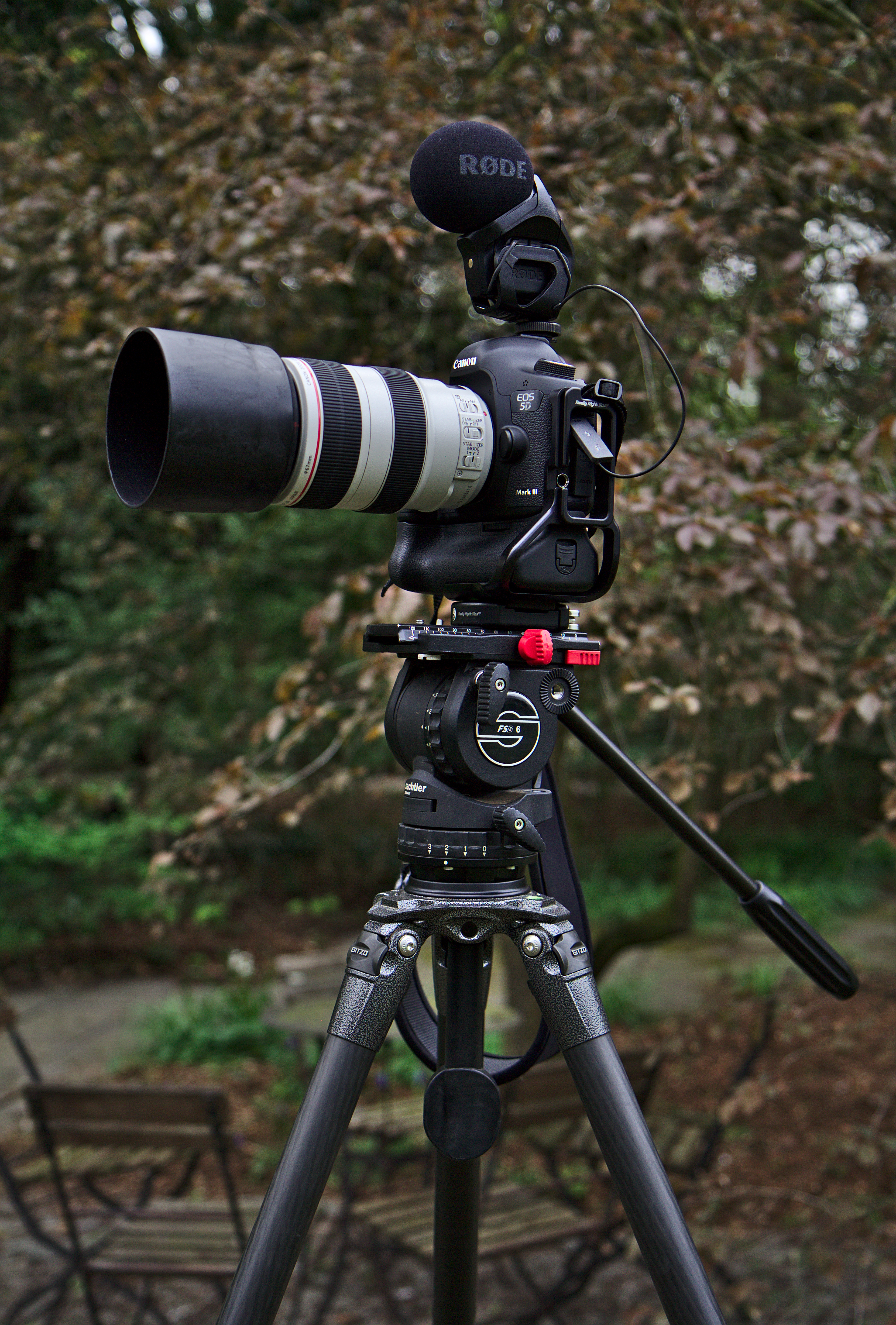 This is our standard kit configuration for filming. The Røde microphone provides excellent uncompressed stereo audio quality alongside the incredibly crisp 1080p video image the Canon 5D Mark III records. The support system pictured is our Gitzo carbon fiber Series 3 tripod with a Sachtler FSB-6 frictionless fluid video head, connected with Arca-Swiss style clamps and plates from ReallyRightStuff.